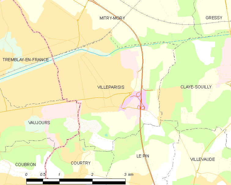 Map of French municipality Villeparisis